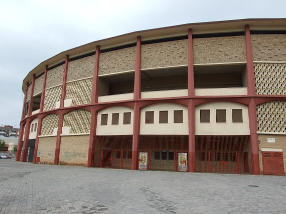 Los Califas Bullring, in Córdoba (Spain).